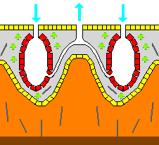 Porifera - calcifying sponge for use with Template:Annotated image. Colours: yellow: pinacocytes red: choanocytes pale grey: mesohyl lime green: archecytes and other cells in mesohyl dark grey: spicules orange: calcium carbonate brown: substrate cyan: water flow Ref: Ruppert, E.E., Fox, R.S., and Barnes, R.D. (2004) Invertebrate Zoology (7th ed.), Brooks / Cole, pp. 76-97 ISBN: 0030259827.